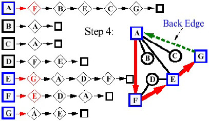 Dry run Depth-first search Algorithm in Graph, step 4